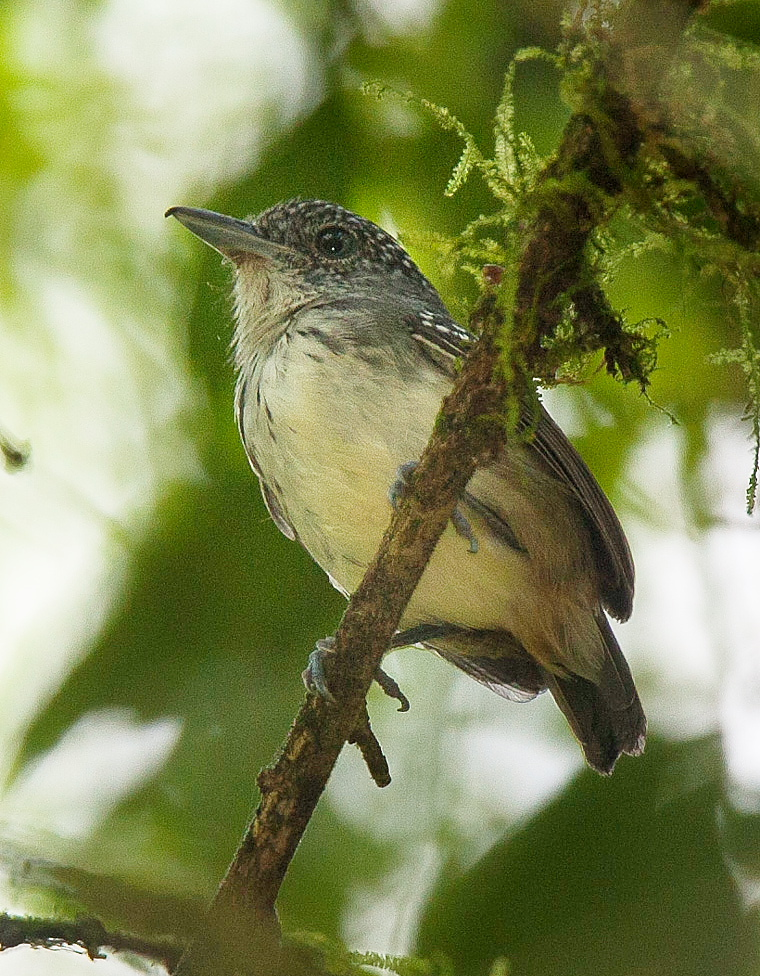 Spot-crowned Antvireo - Panam_H8O3186